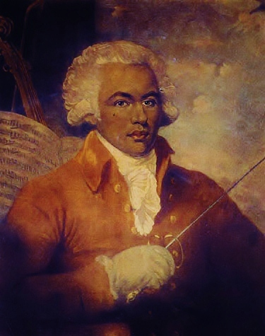 Chevalier de Saint-Georges (1745-1799) was one of the earliest musicians of African ancestry in the world of European classical music.